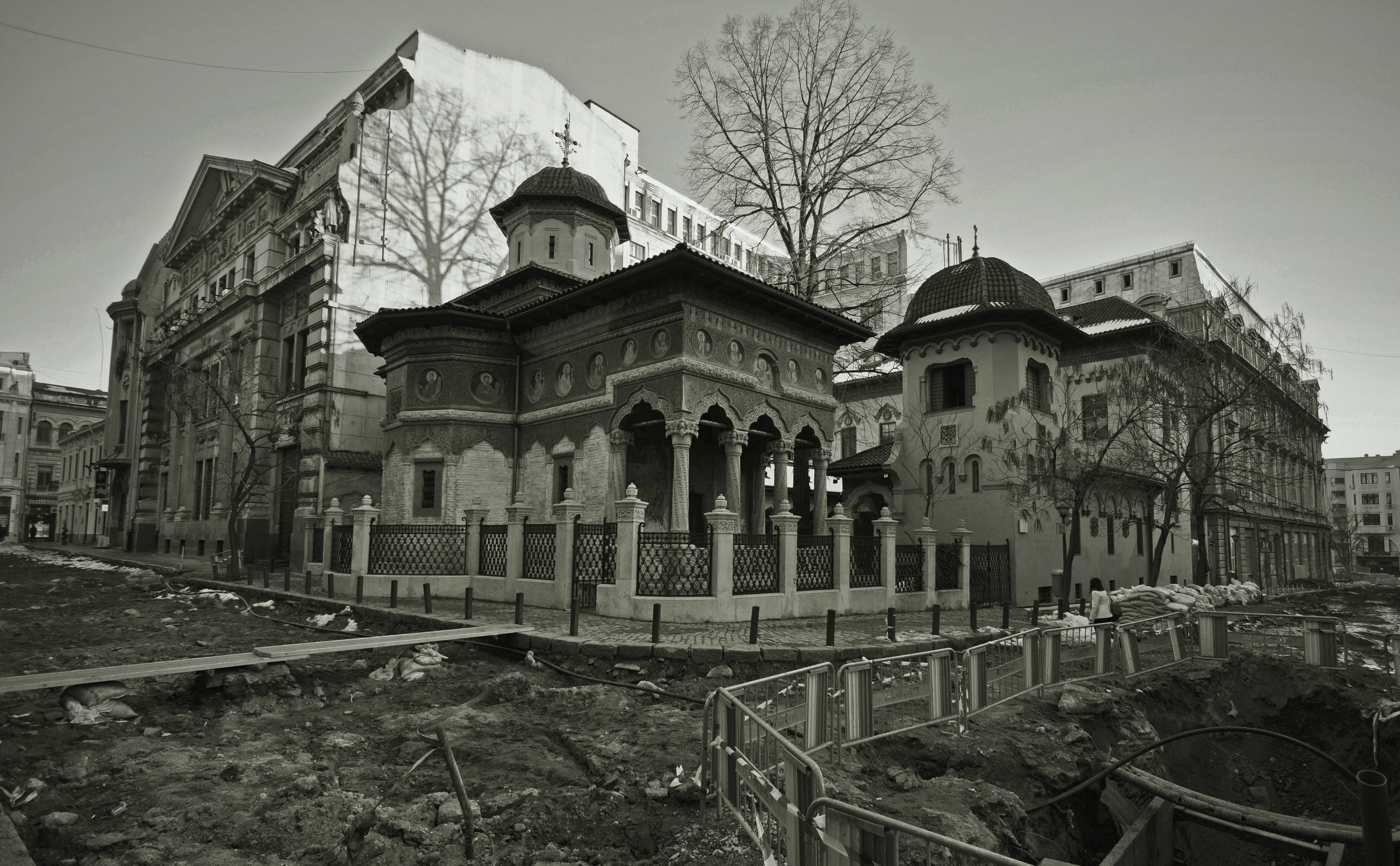 Stavropoleos Monastery — beyond the "construction" on Strada Stavropoleos. In Bucharest, Romania.